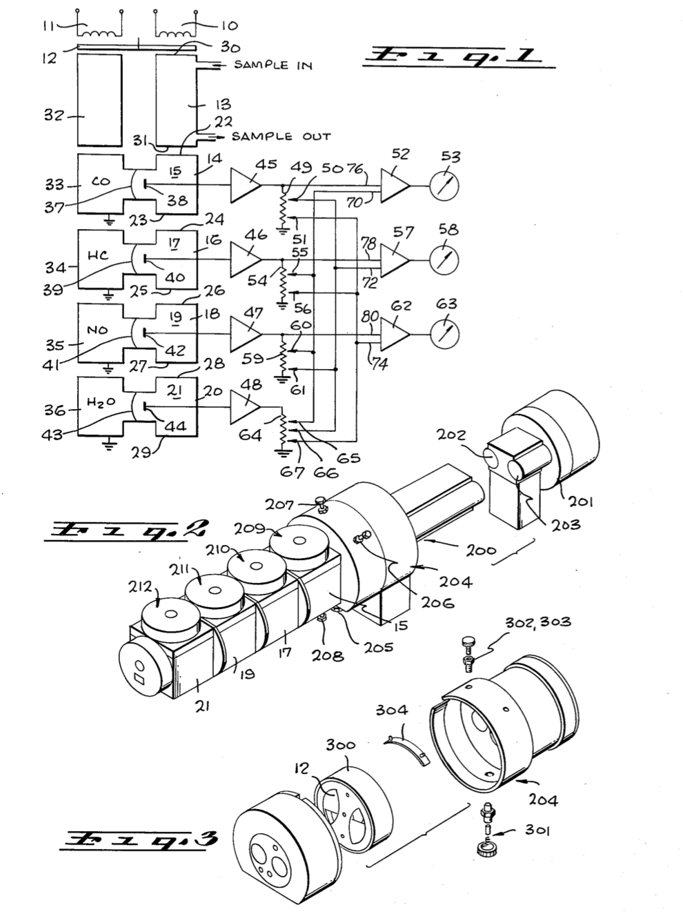 A drawing of the Kozo Ishida's Infrared Gas Analyzer